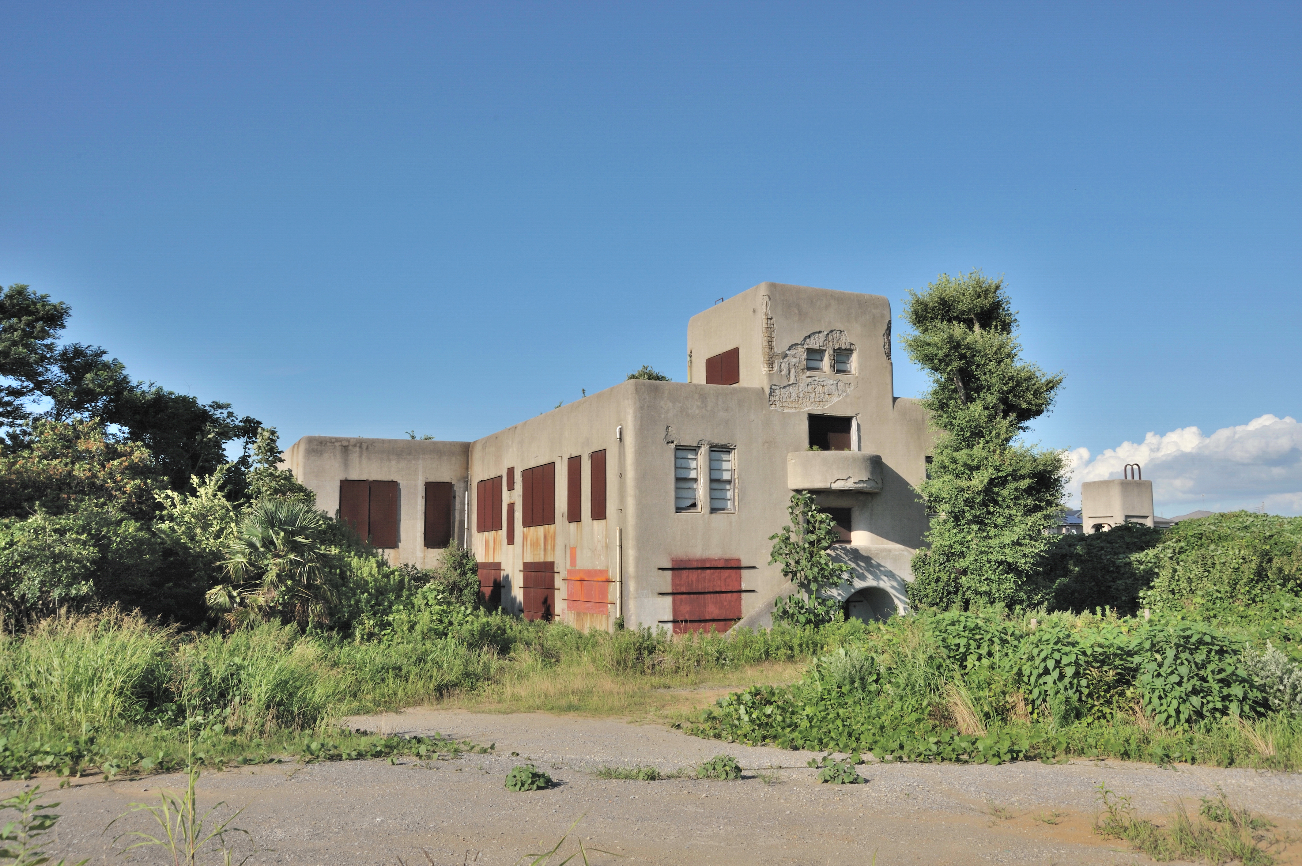 Japans Oldest International Radio Facilities,Kemigawa Transmitter Station. Operated by Nippon Telegraph and Telephone Public Corporation in 1926-1979. location Hanamigawa,Chiba,Japan.